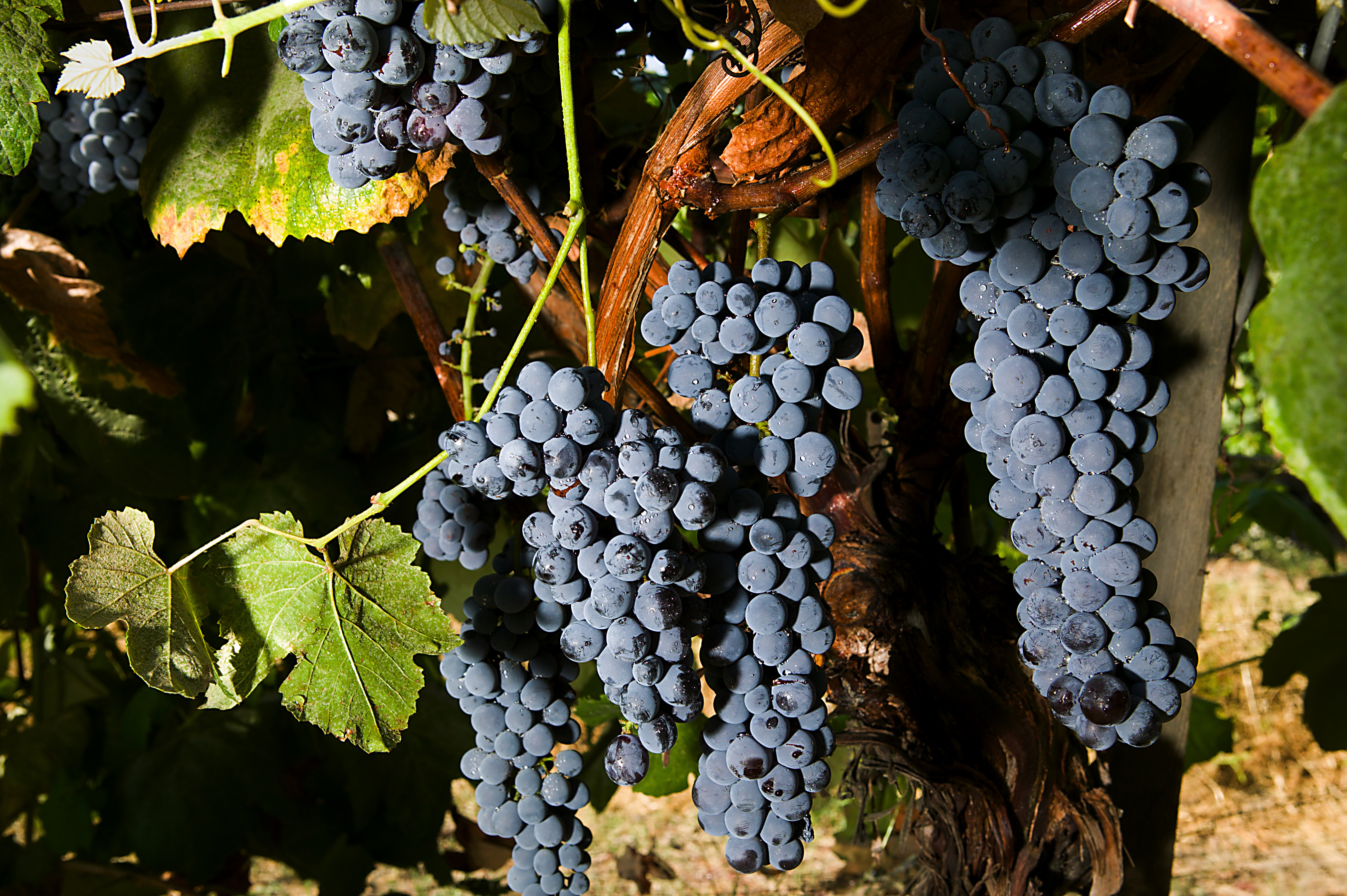 Thomcord, a sweet, seedless grape from ARS's Parlier, California, breeders, resulted from crossing a Thompson with a Concord.